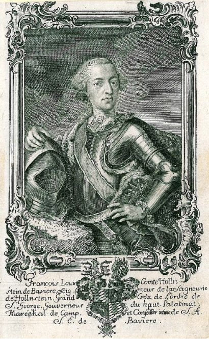 Franz Ludwig von Holnstein (1723–1780), bayerischer General und Politiker, illegitimer Sohn von Kurfürst Karl Albrecht.